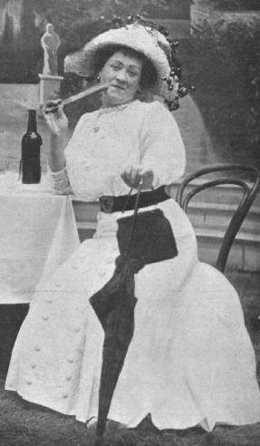 Spanish Actress Irene Alba